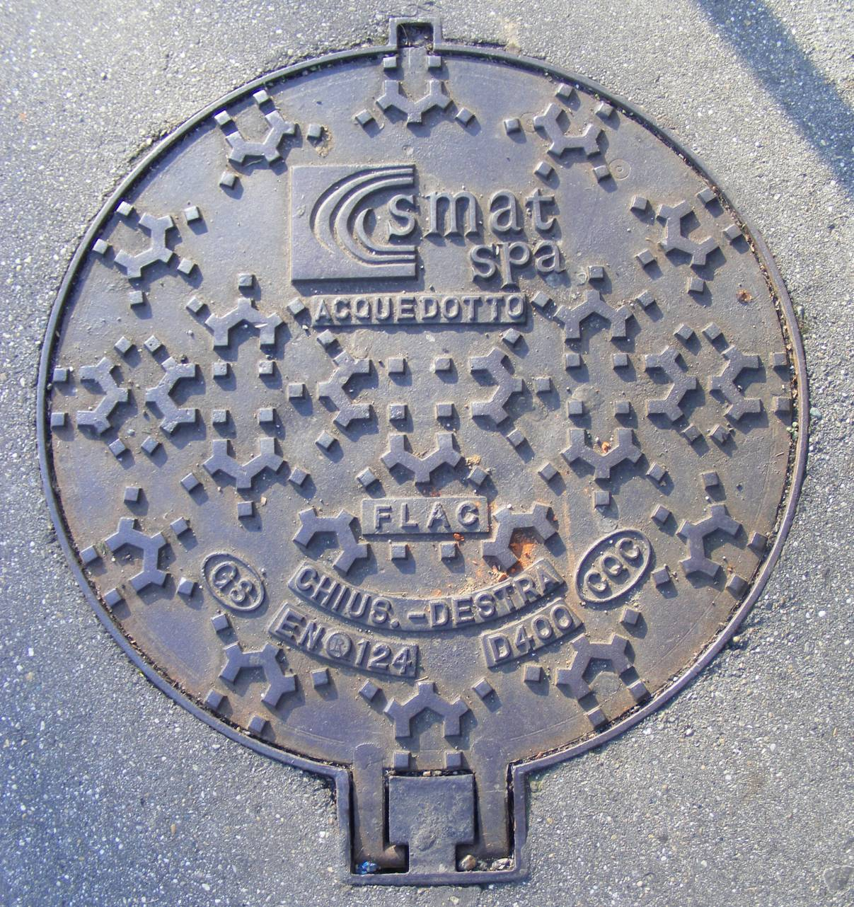 Manhole cover of SMAT (Turin, Italy)